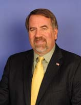 California Representative Doug LaMalfa's Portrait for the 113th Congress.